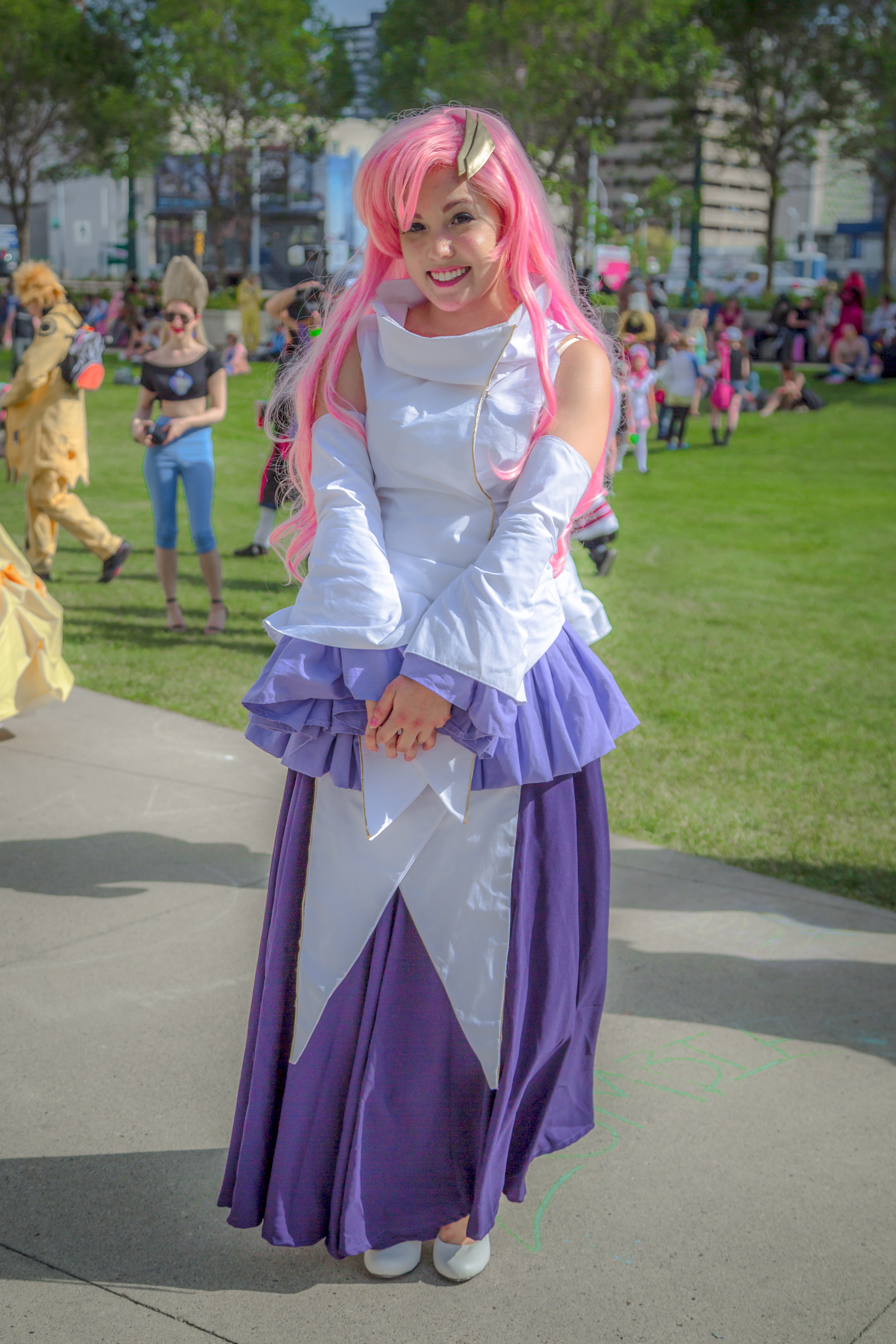 Edmonton Animethon 20 - 2013